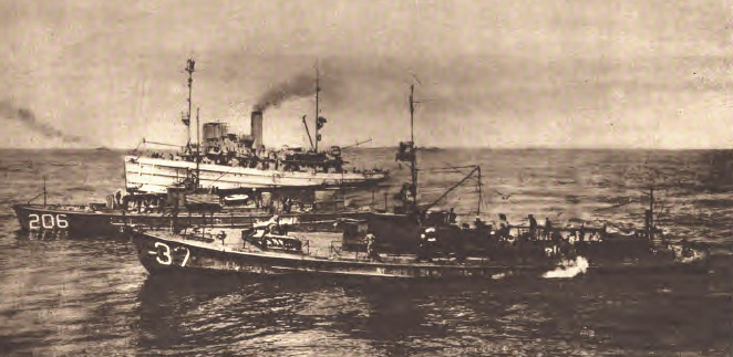 The United States Navy submarine chasers and operating with a minesweeper in the North Sea during minesweeping operations to clear the North Sea Mine Barrage after World War I.